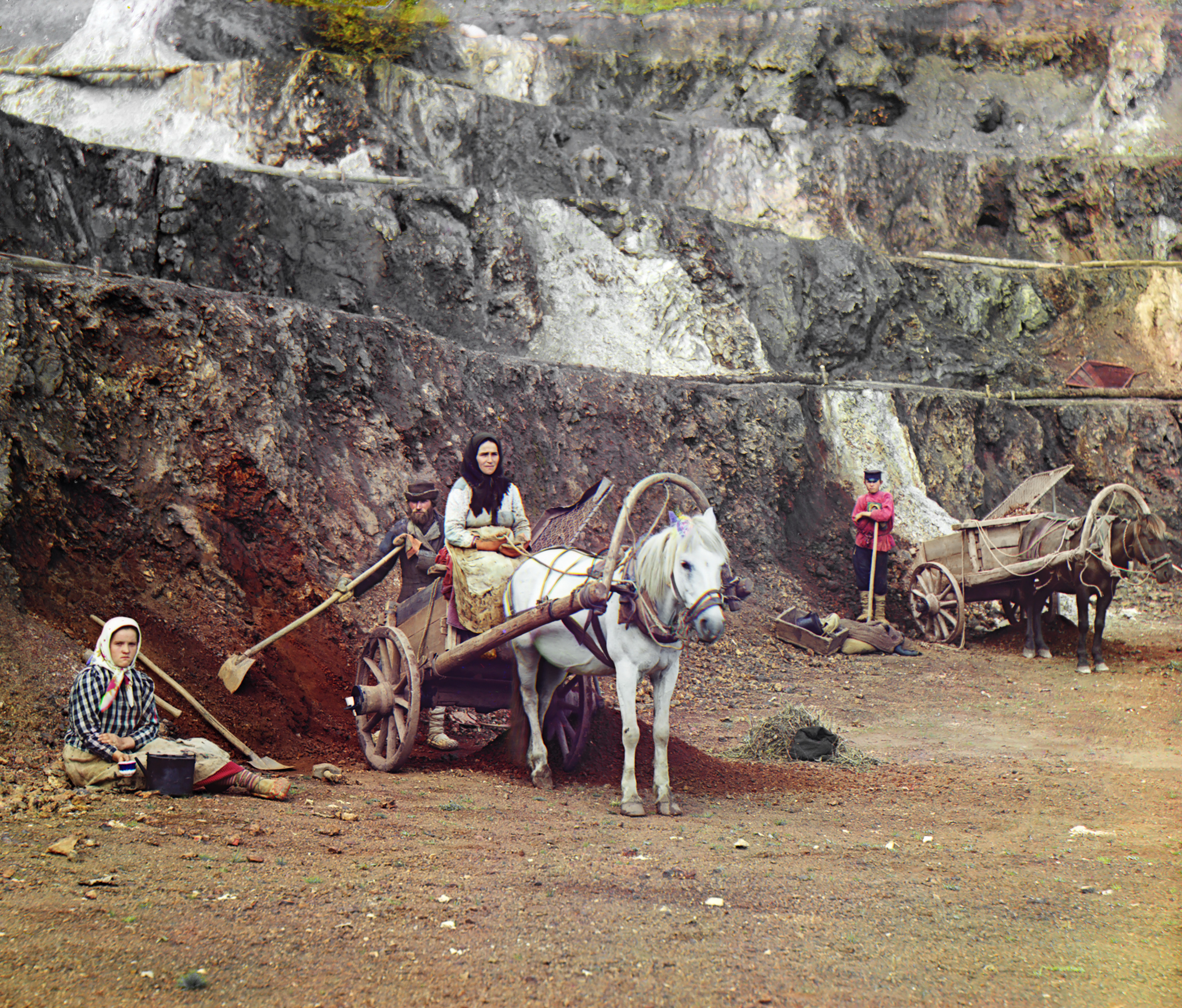 Original Description: Work at the Bakalskii mine. A family, with shovels and horse-drawn carts, working at the iron mines in the Bakaly hills.